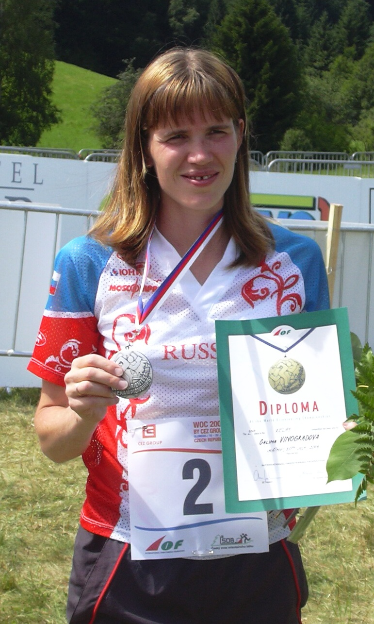 World Orienteering Championships 2008 in Olomouc, Czech Republic. On photo Galina Vinogradova.